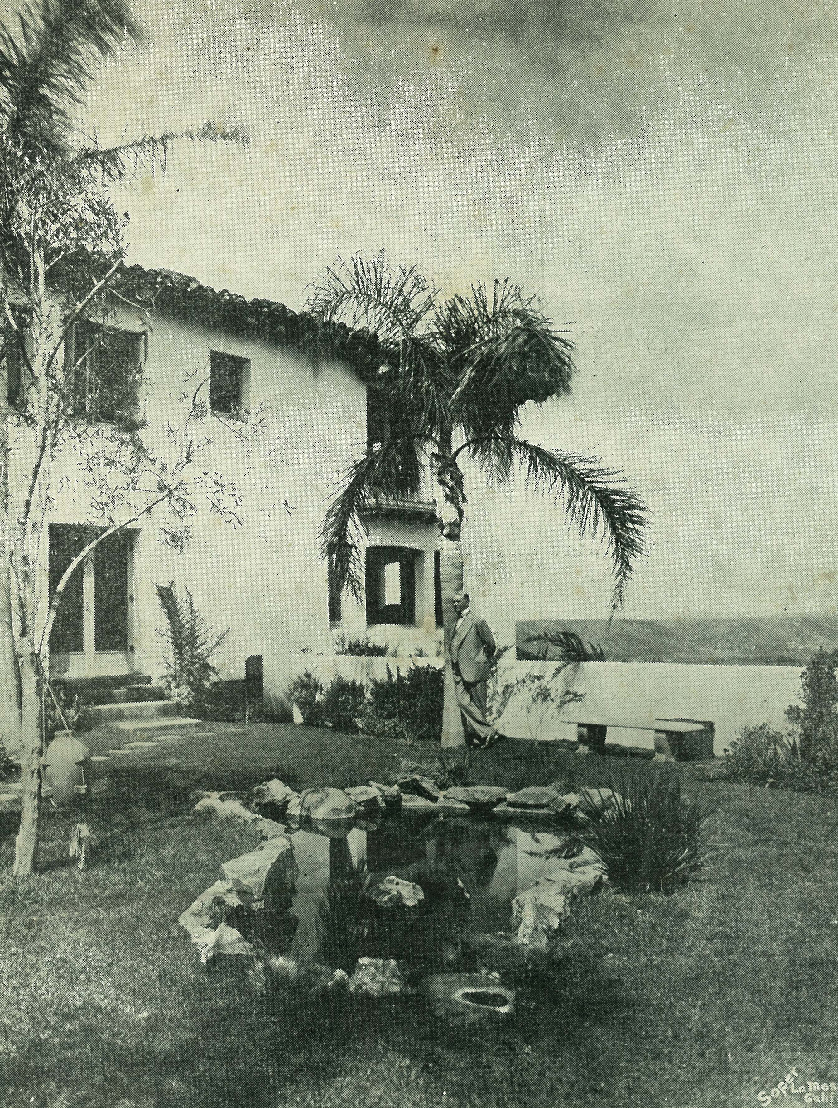 Picture taken from the July 25, 1931 Messenger of J.F. Rutherford ("Judge Rutherford") standing near a pond at Beth Sarim, his estate in San Diego, California. The mansion was built in 1929 for the occupancy of the expected resurrection of Old Testament prophets ("princes"). At the time, Rutherford was president of the Watchtower Bible and Tract Society (Jehovah's Witnesses). Copyright for the Messenger was not renewed and picture is in the public domain. Picture was scanned from original magazine.